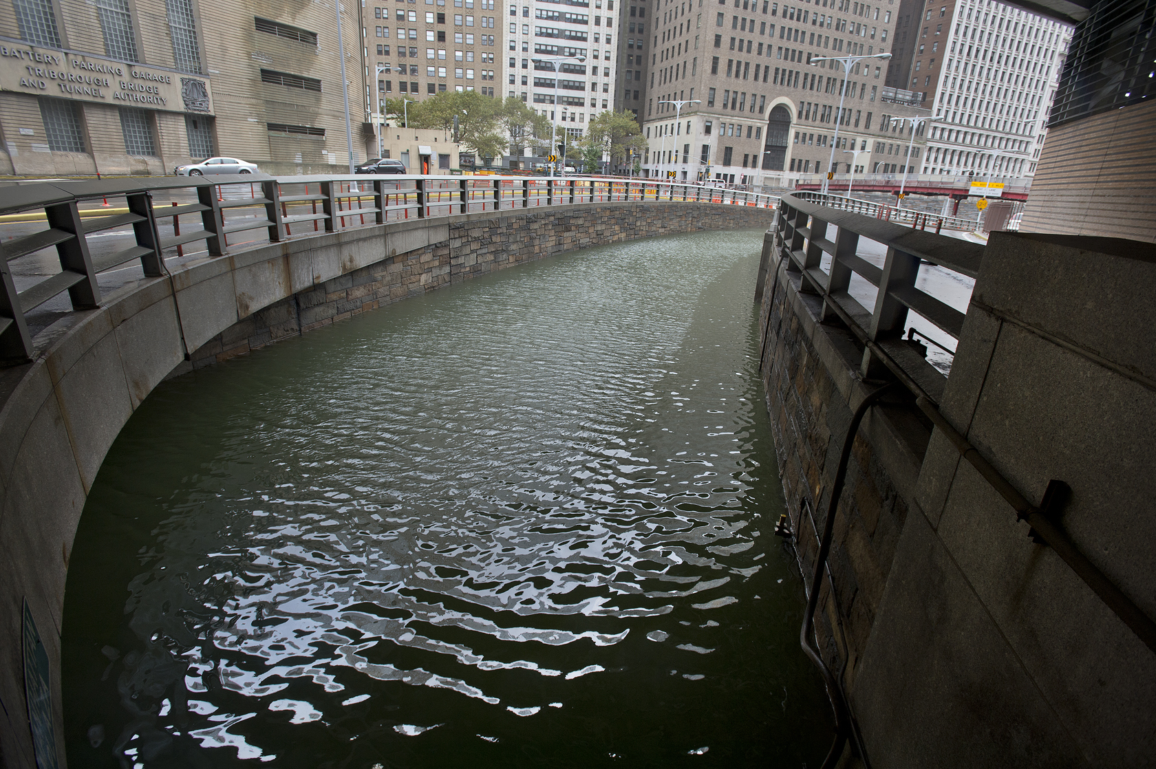 Governor Andrew M. Cuomo toured the Hugh L. Carey Tunnel (formerly known as the Brooklyn Battery Tunnel) on Oct. 30, 2012, with MTA Chairman and CEO Joseph J. Lhota and Jim Ferrara, President of MTA Bridges and Tunnels. The tunnel flooded during Hurricane Sandy. Photo: Metropolitan Transportation Authority / Patrick Cashin.